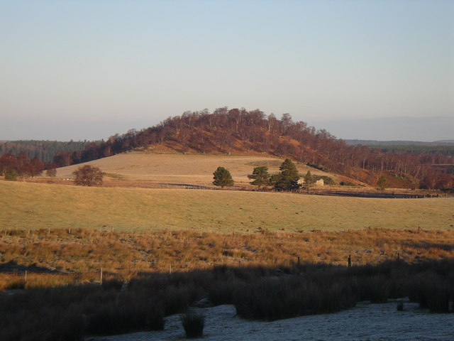 colindoune